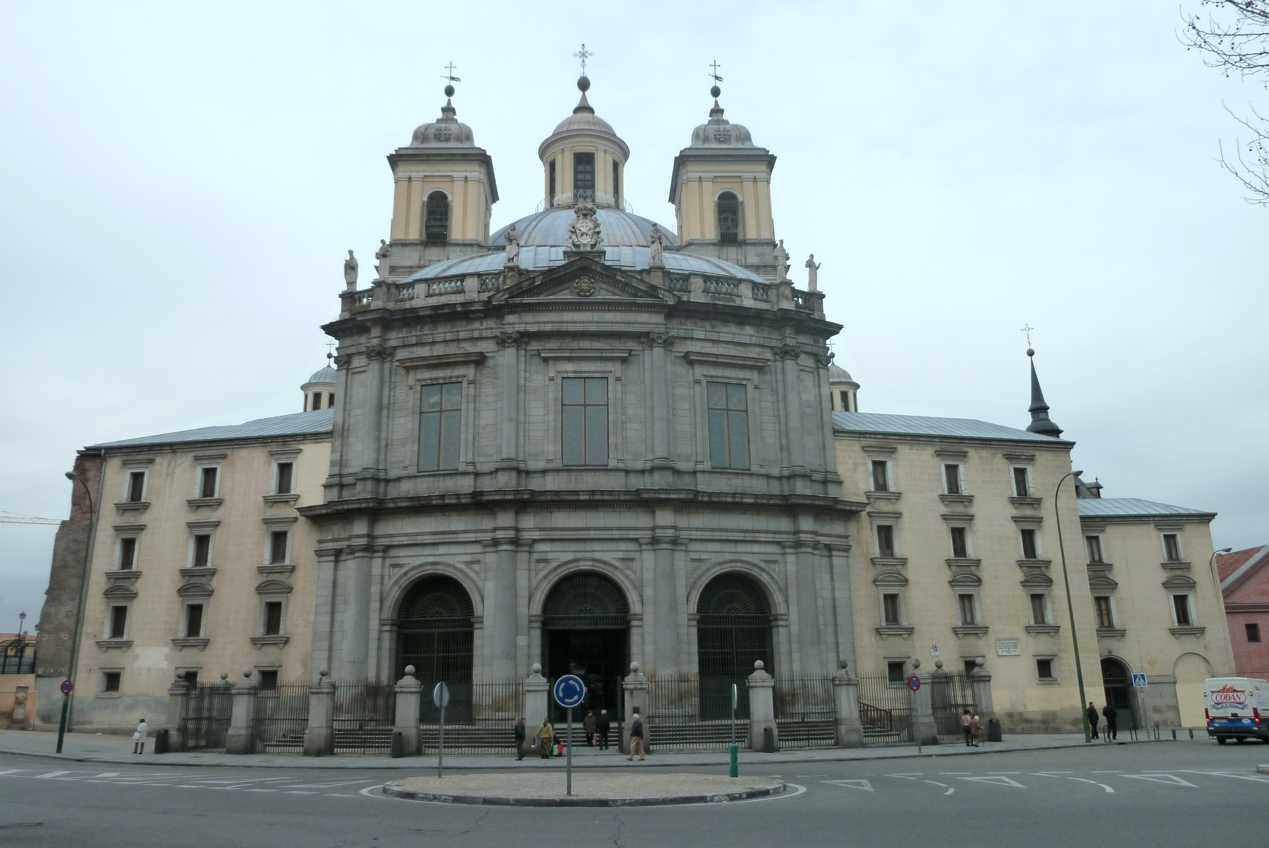 Façade of the Basilica of Saint Francis of Assisi in Madrid (Spain).